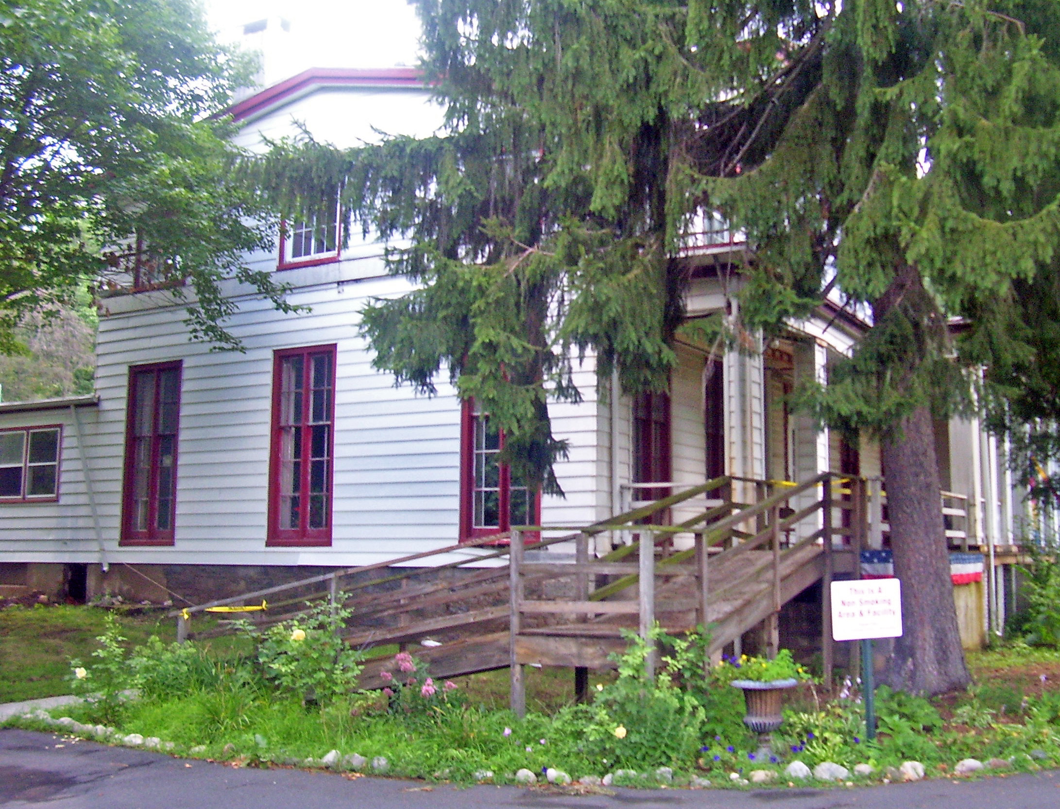 Jacob Sloat House, also Harmony Hall, Sloatsburg, NY, USA